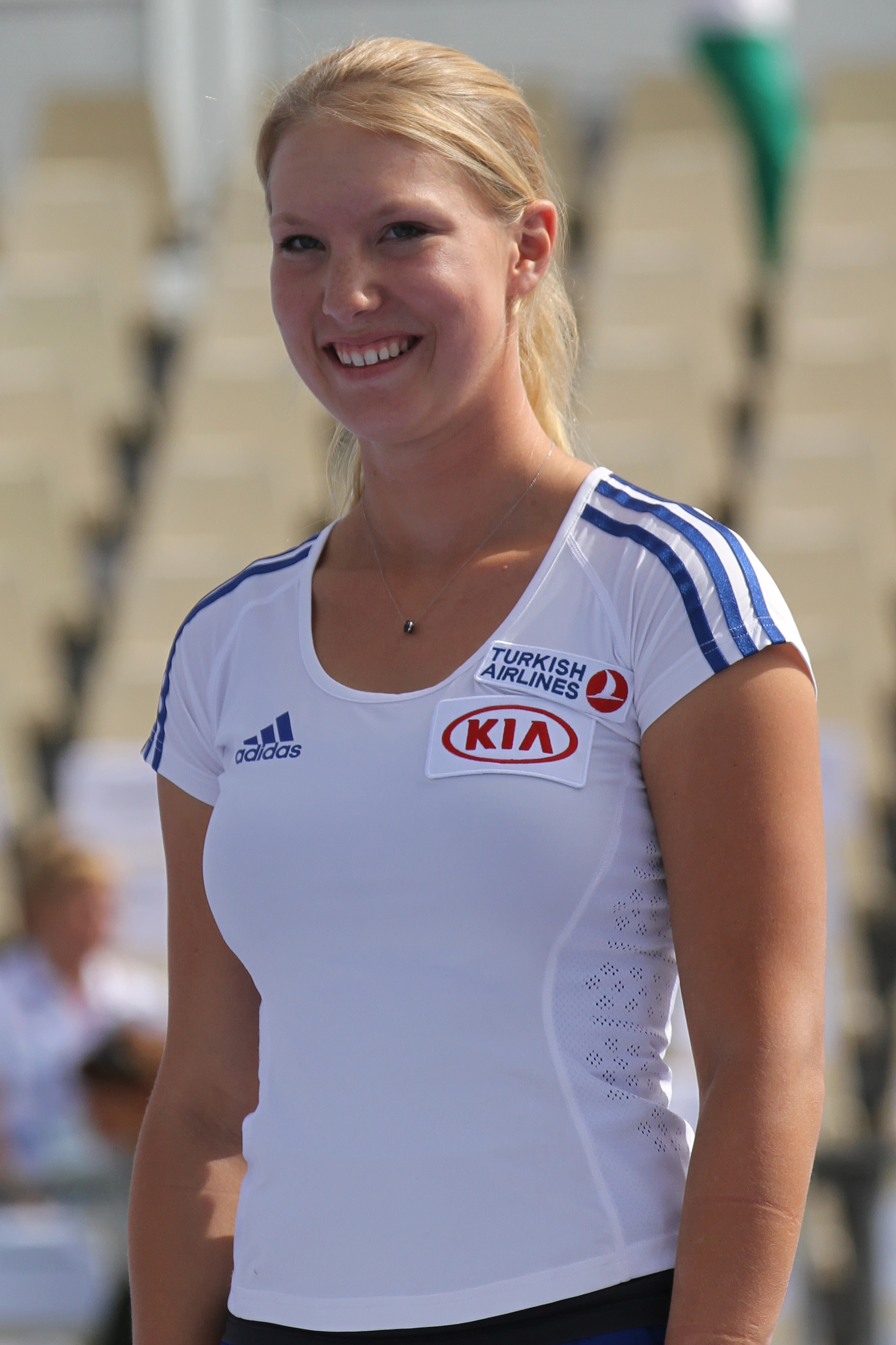 2013 FITA Archery World Cup, Paris, France. Mixed Team Compound Final. Pascale Lebecque and Pierre-Julien Deloche vs Marcella Tonioli and Sergio Pagni.